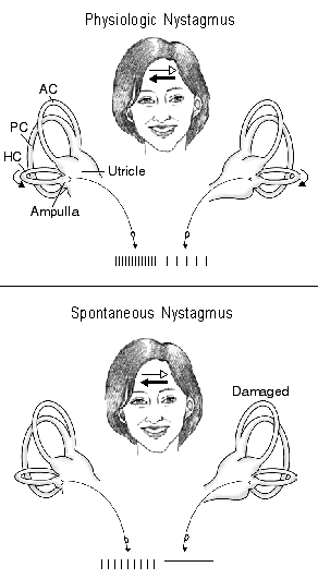 balance disorder image from public domain